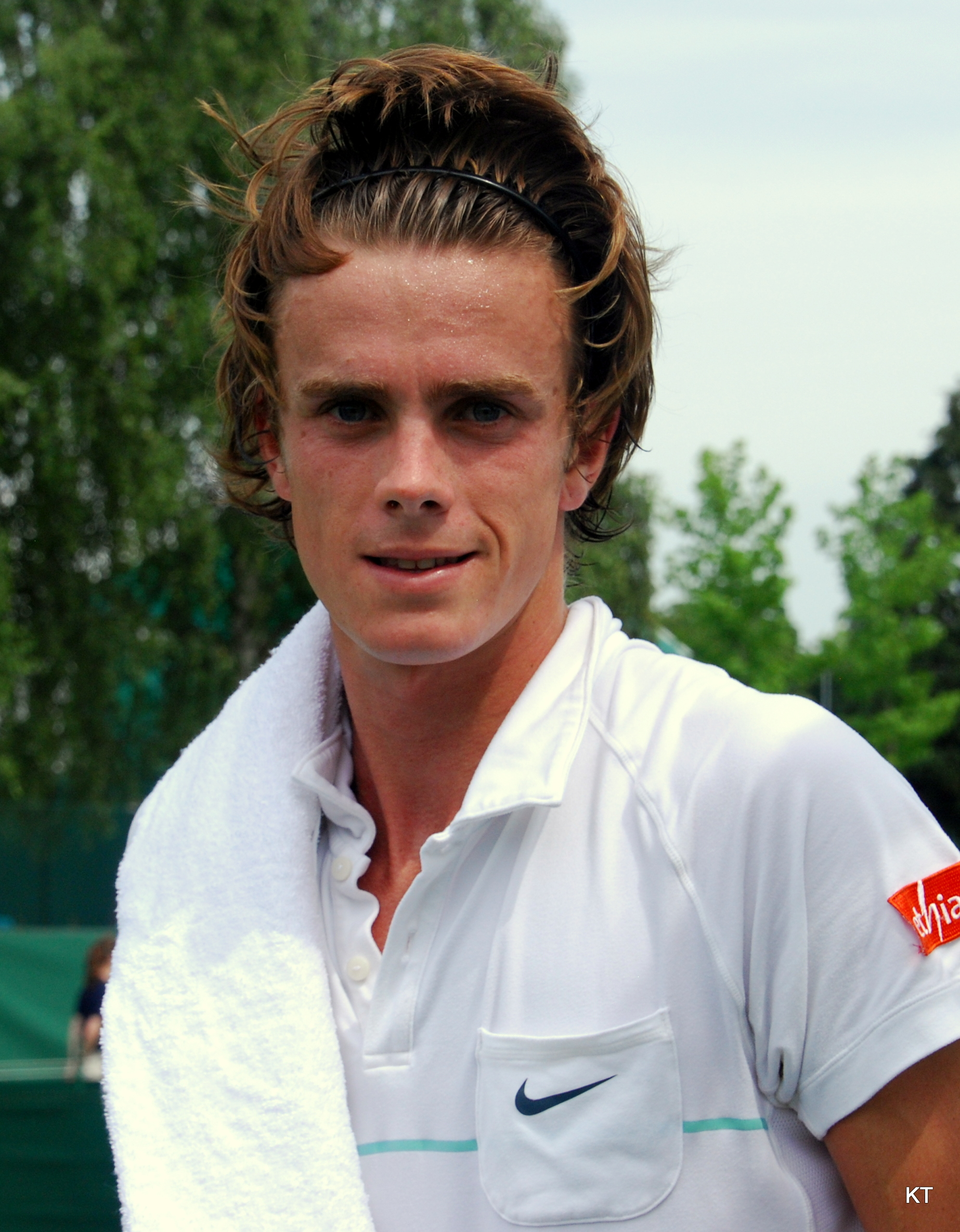 Wimbledon qualifying - Arthur De Greef